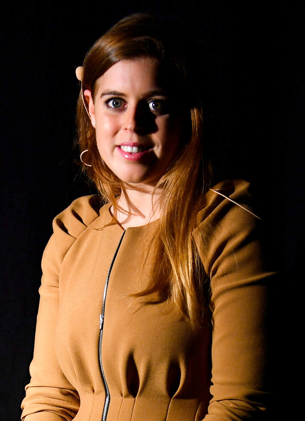 Princess Beatrice of York at Day 2 of Web Summit 2018.